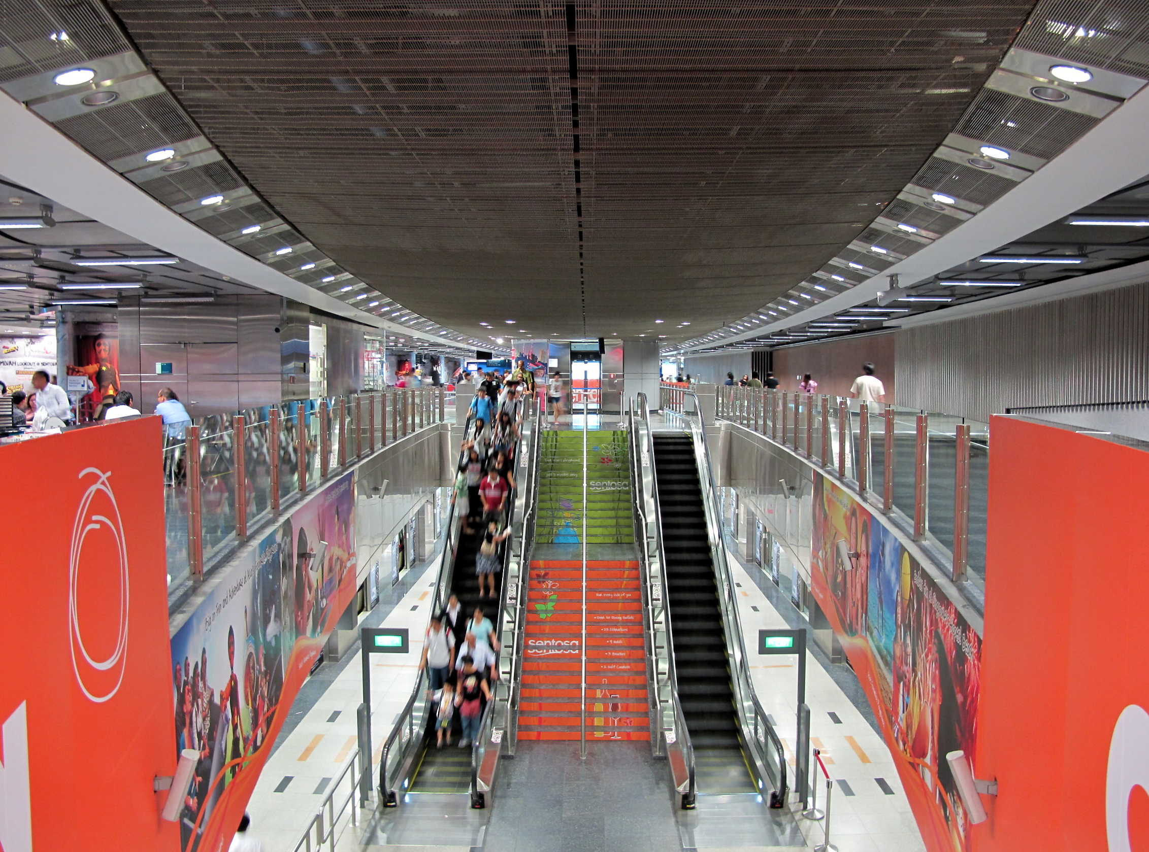 HarbourFront MRT Station